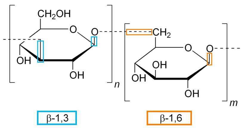 Reference showing different glycosidic bonds of a beta-glucan.